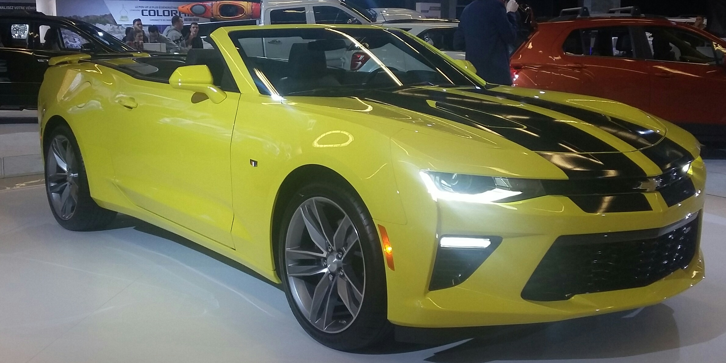 2016 Chevrolet Camaro photographed in Montreal, Quebec, Canada at the Salon International de l’auto de Montréal 2016.